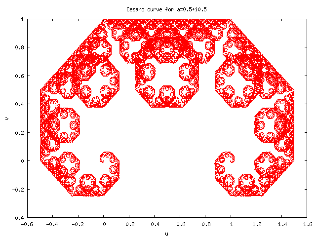 A Cesaro style de Rham curve for a = 0.5 + i 0.5 {\displaystyle a=0.5+i0.5} .